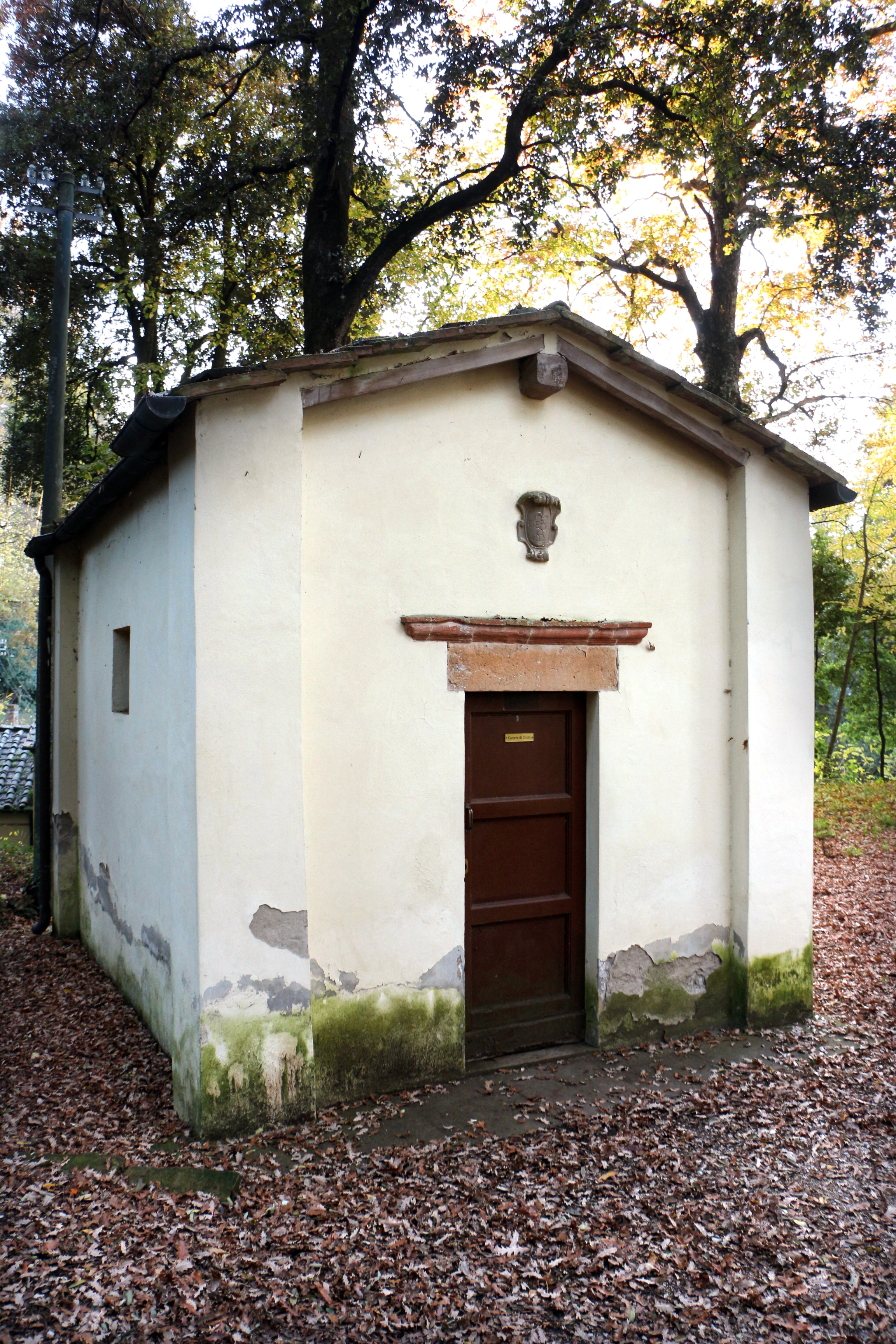 San Vivaldo Sacro Monte